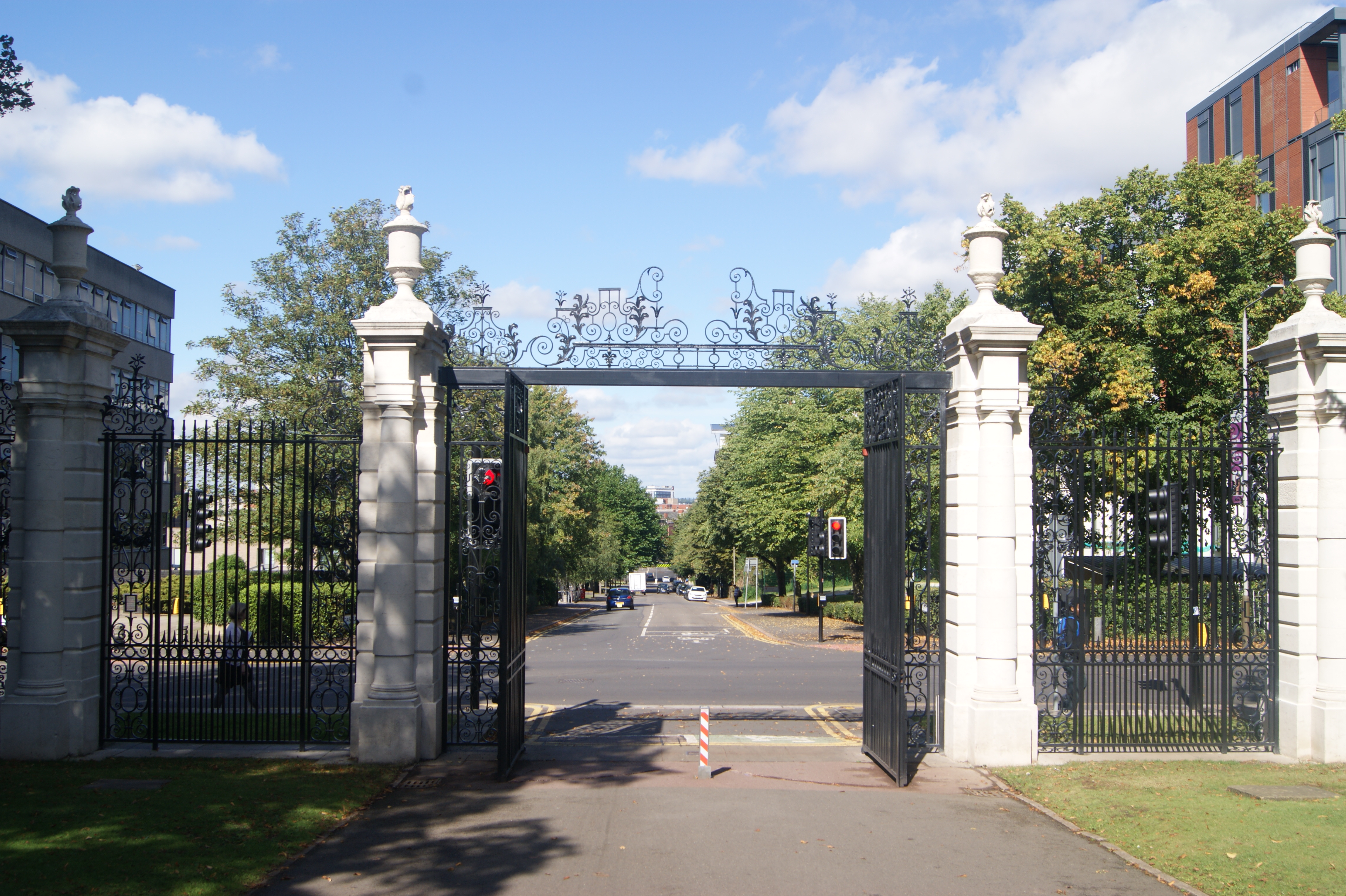 The Peace Walk, leading to the Arch of Remembrance, facing University Road in Leicester, England